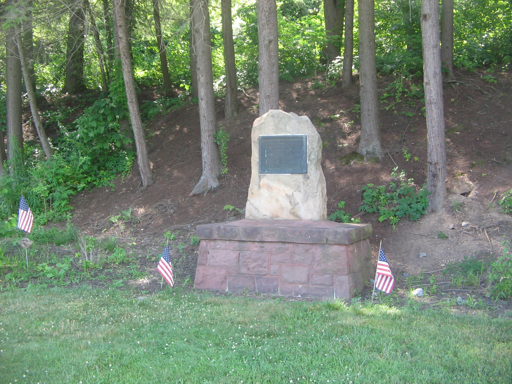 Foster Joesph Sayers Memorial at Bald Eagle State Park in Liberty Township, Centre County, Pennsylvania, USA.